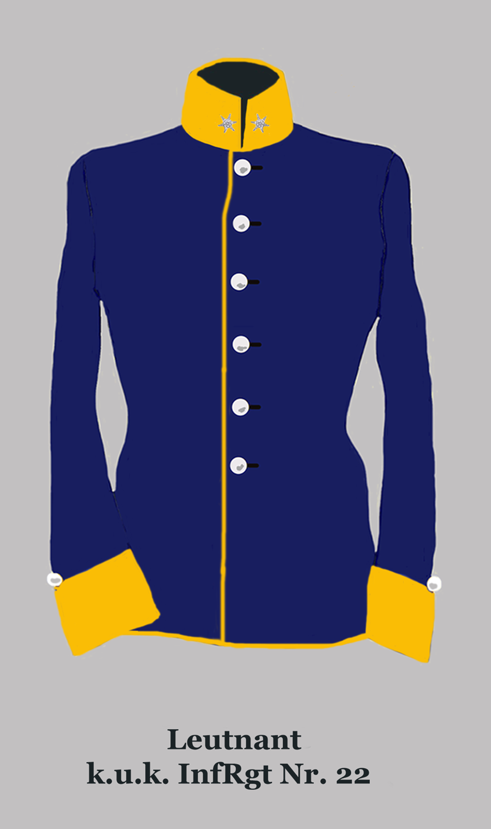 Lieutenant in the k.u.k. german 22nd Infantry Regiment (Collar yellow, buttons white)